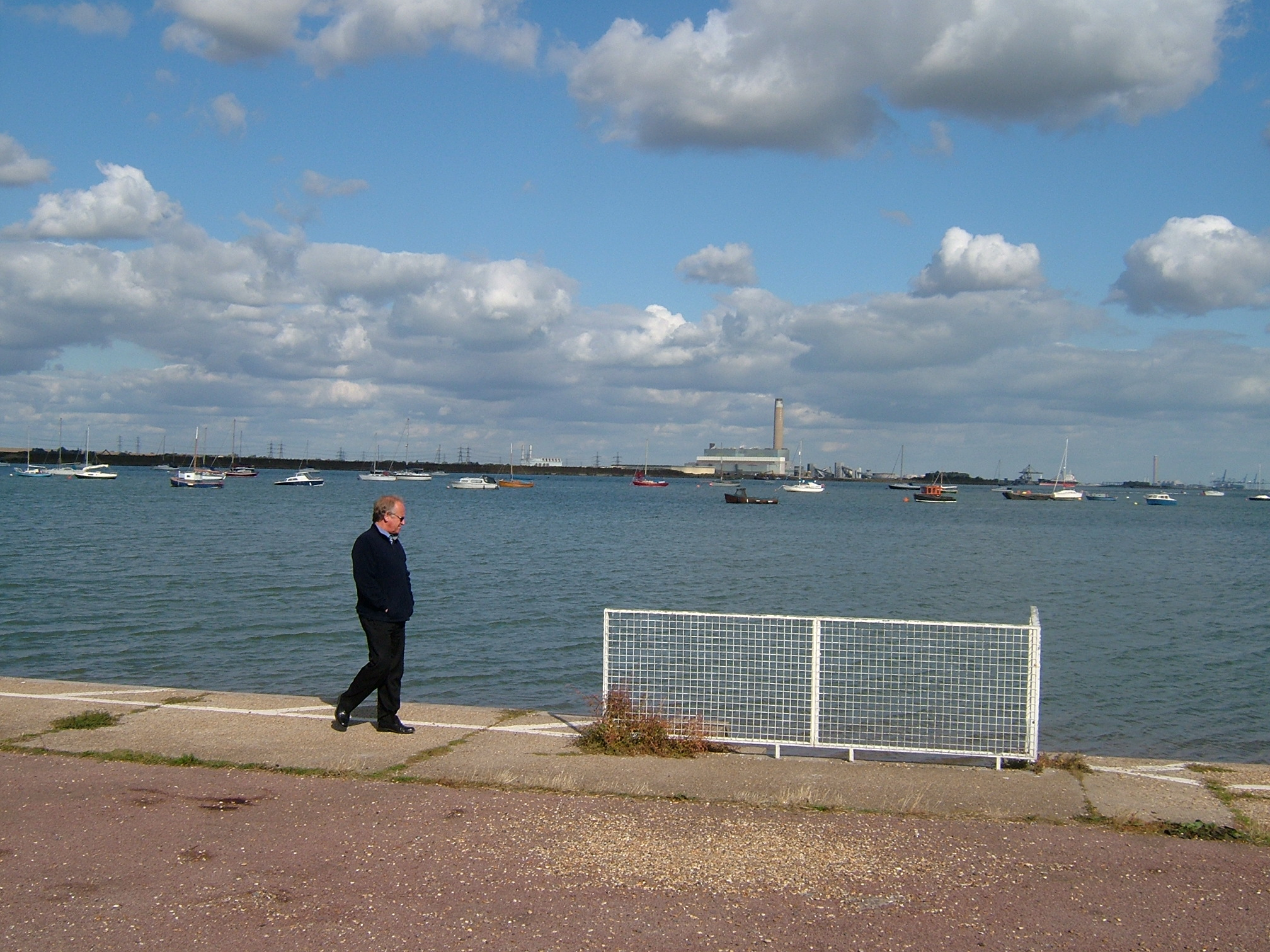 Gillingham Strand is leisure facility on the shore of River medway Estuary, in Gillingham, Medway, England. The shore, with Kingsnorth power stations behind. - Google Maps - Google Earth